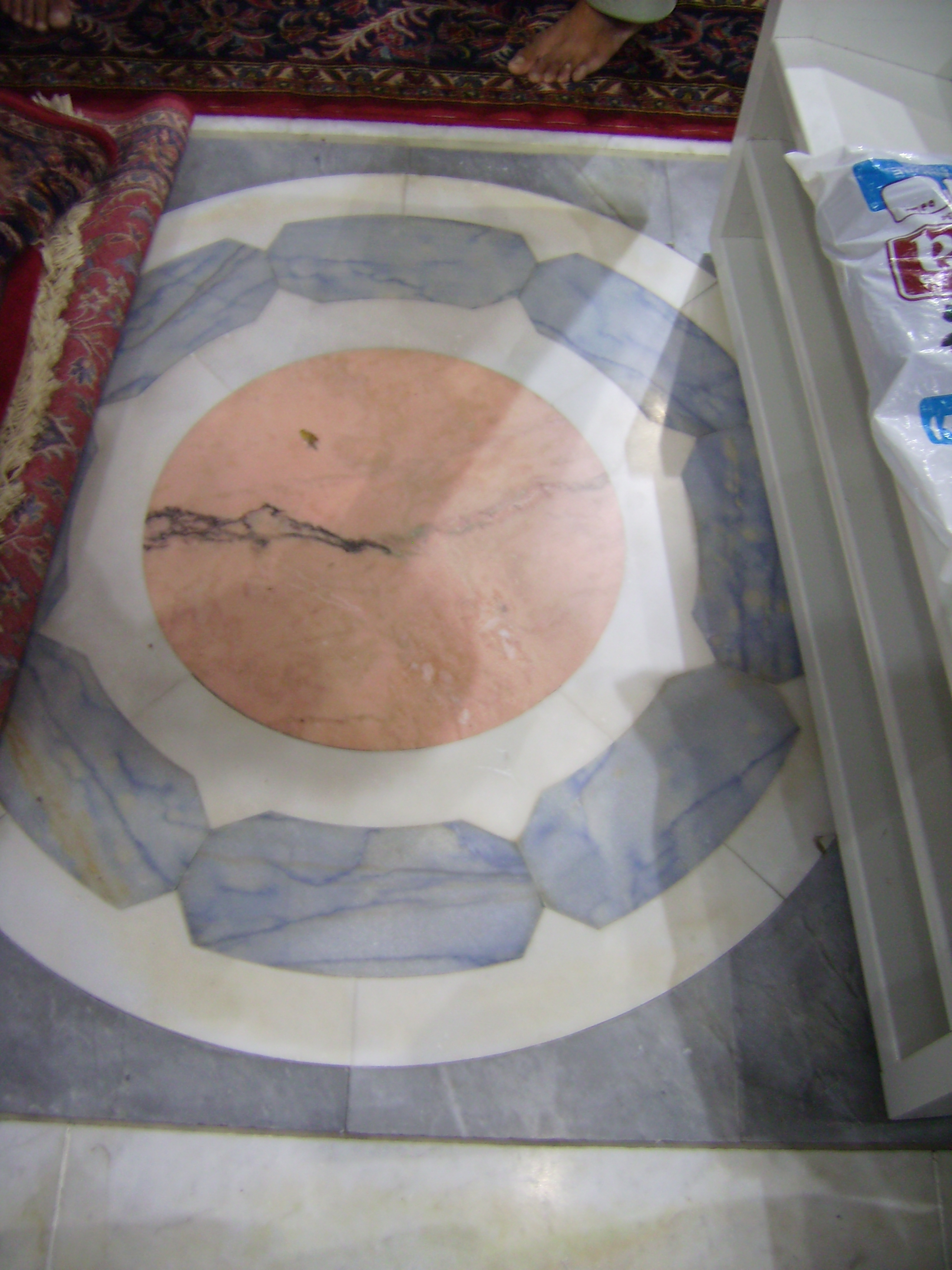 Beer Rohaa